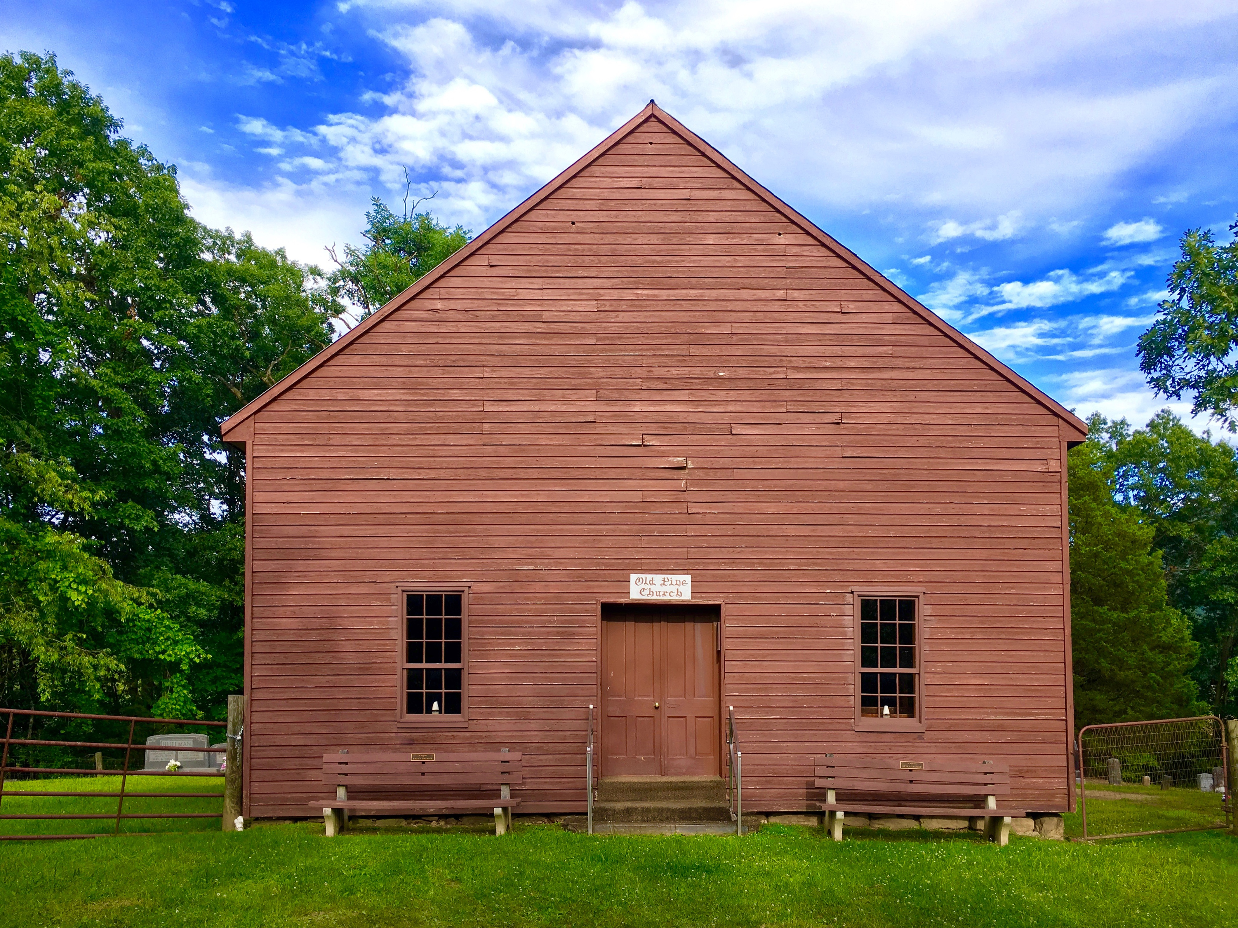 Old Pine Church is a mid-19th-century church along Old Pine Church Road (County Route 220/15), south of Purgitsville, West Virginia, United States.